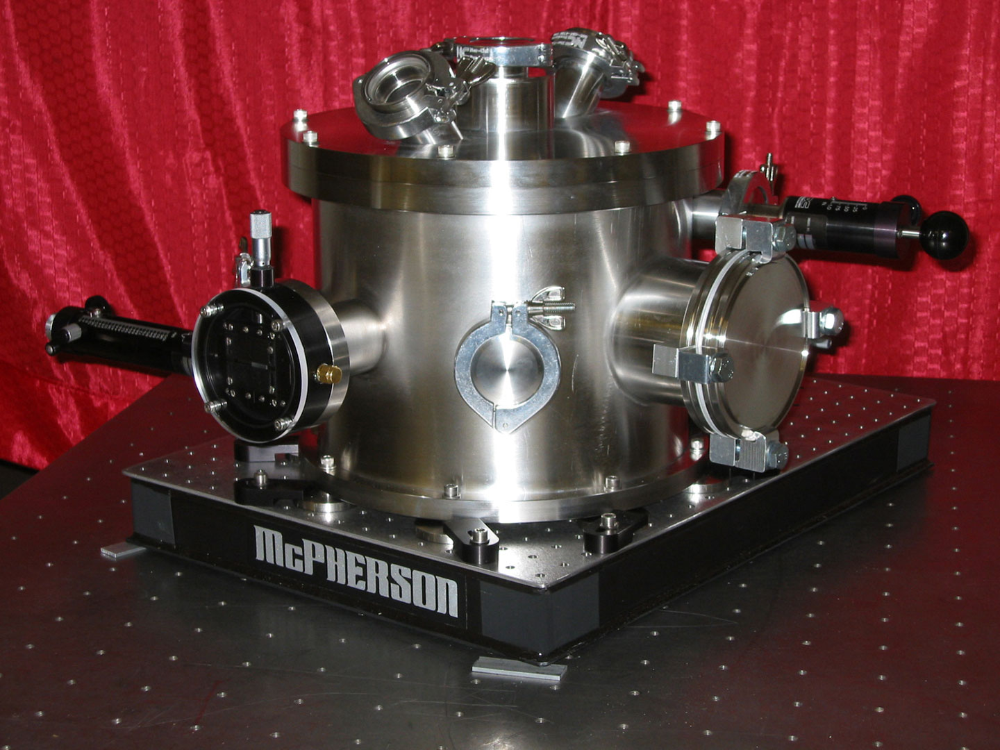 McPherson Model 251MX Spectrograph. -- We, McPherson, made and own this image and hereby release it under CC By-SA 3.0 License.